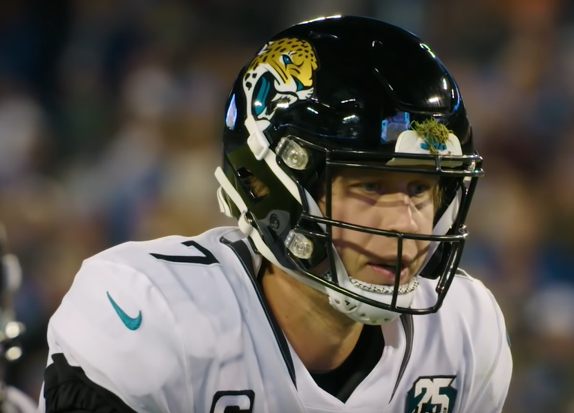 Nick Foles 2019. Image from video Titans Mic'd Up vs. Jaguars (Week 12) | Sounds of the Game, ~ 03:06